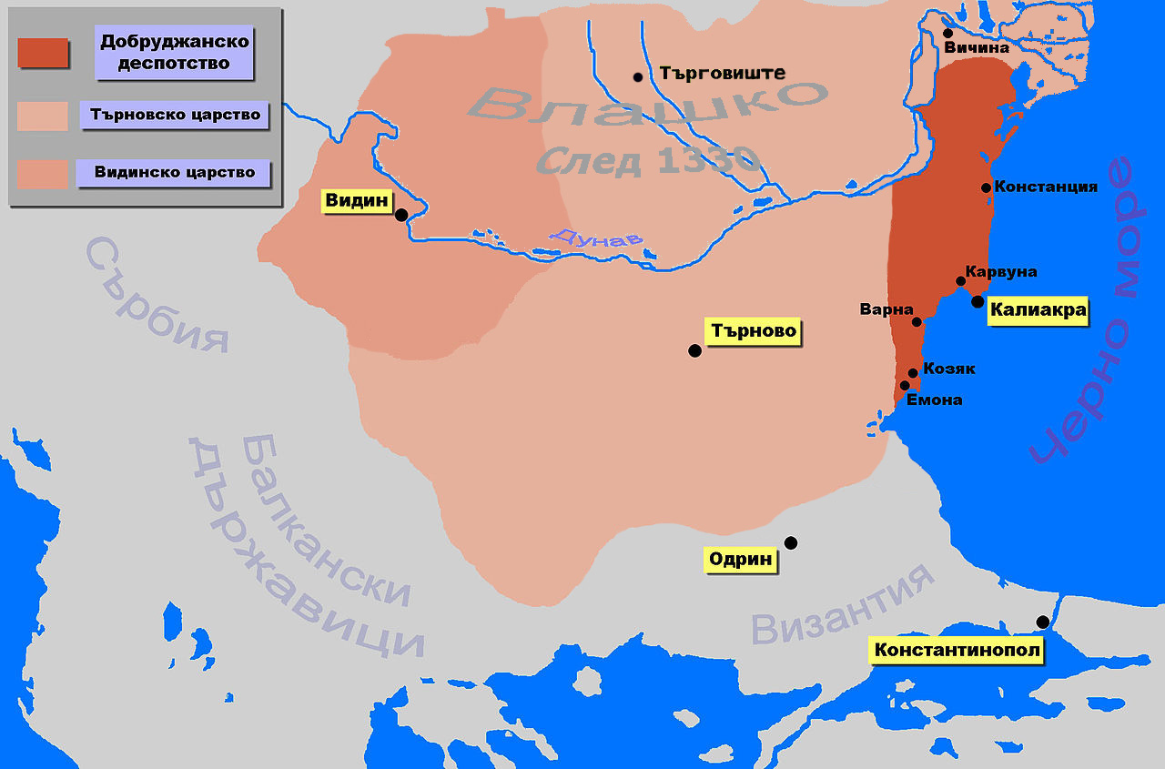 Derivative work since Kandi, with the north bank of the Danube (Wallachia - Vlaskha don't exist as a state before 1328-30, but were a part of the bulgarian tsardoms, even if some Cuman tribes walk here).